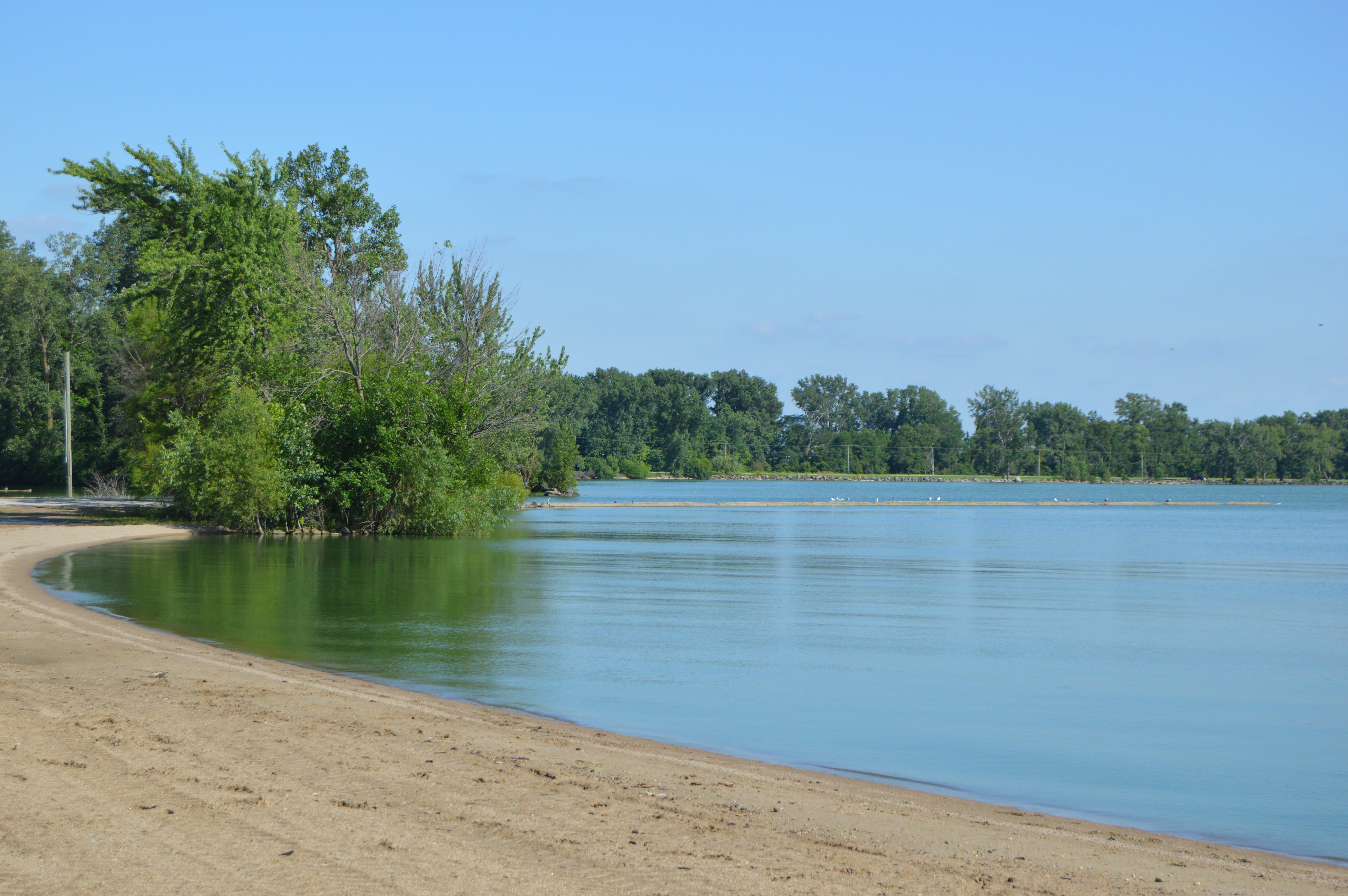 Looking south from a beach on the shoreline at the northeastern corner of Grand Lake St. Marys in Saint Marys Township, Auglaize County, Ohio, United States.